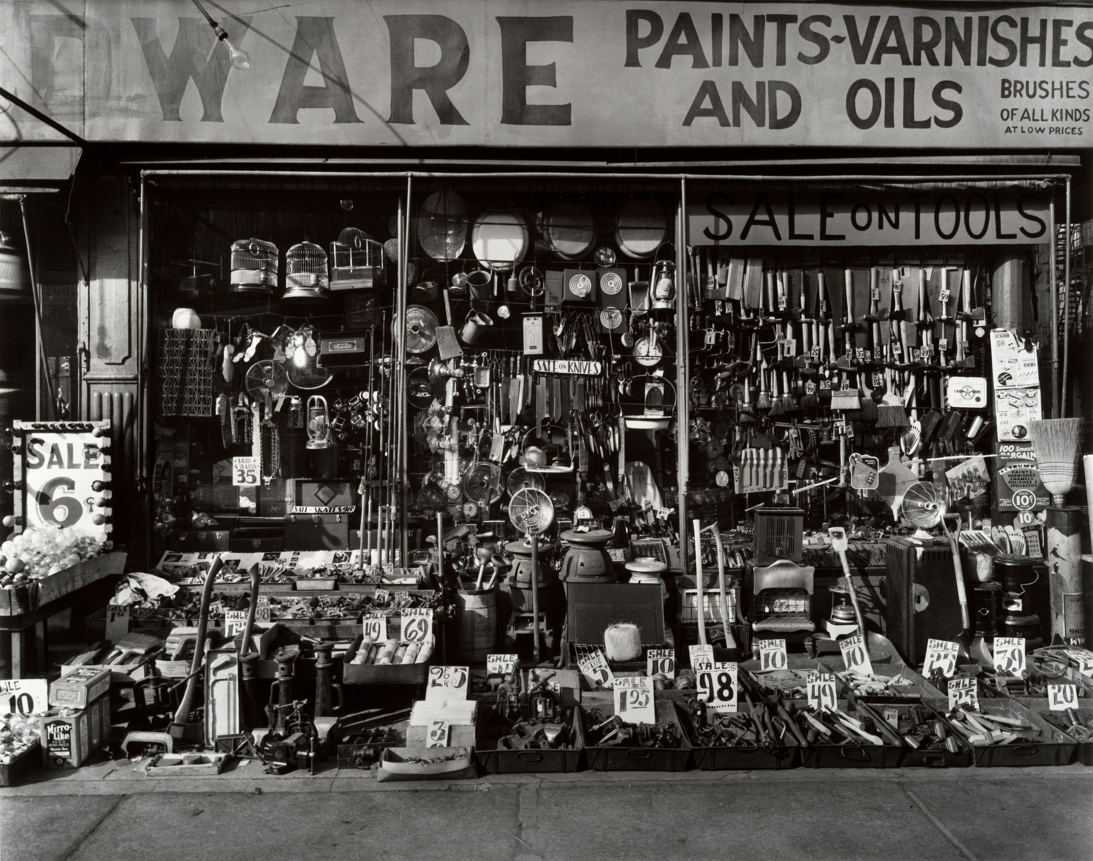 HARDWARE STORE 316-318 Bowery at Bleecker Street in Manhattan, New York City